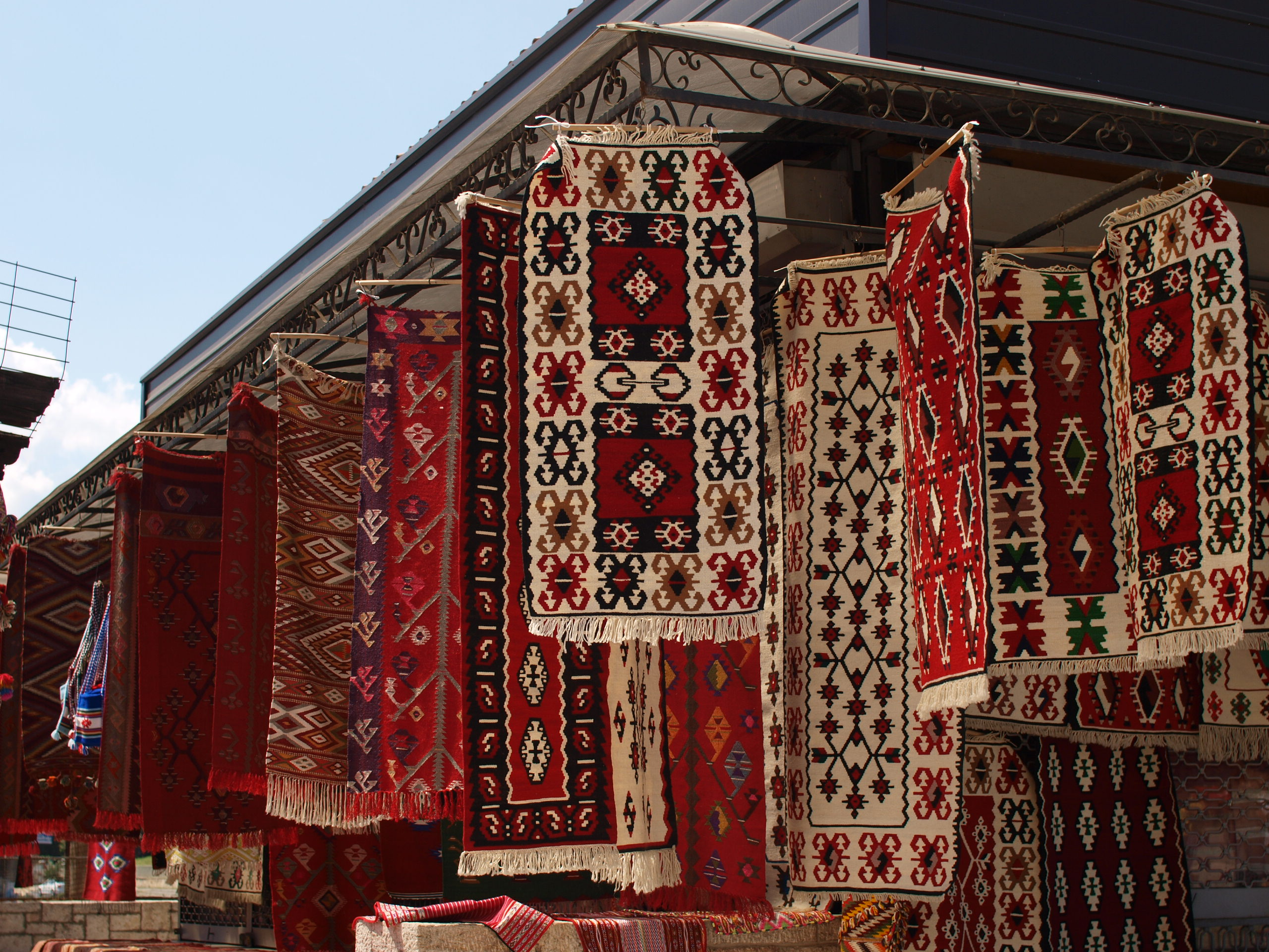 Traditional carpets in Skopje old Bazaar, Macedonia